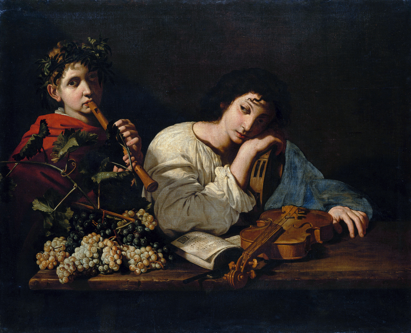 The Sorrows of Aminta oil on canvas 100 x 120 cm circa 1625